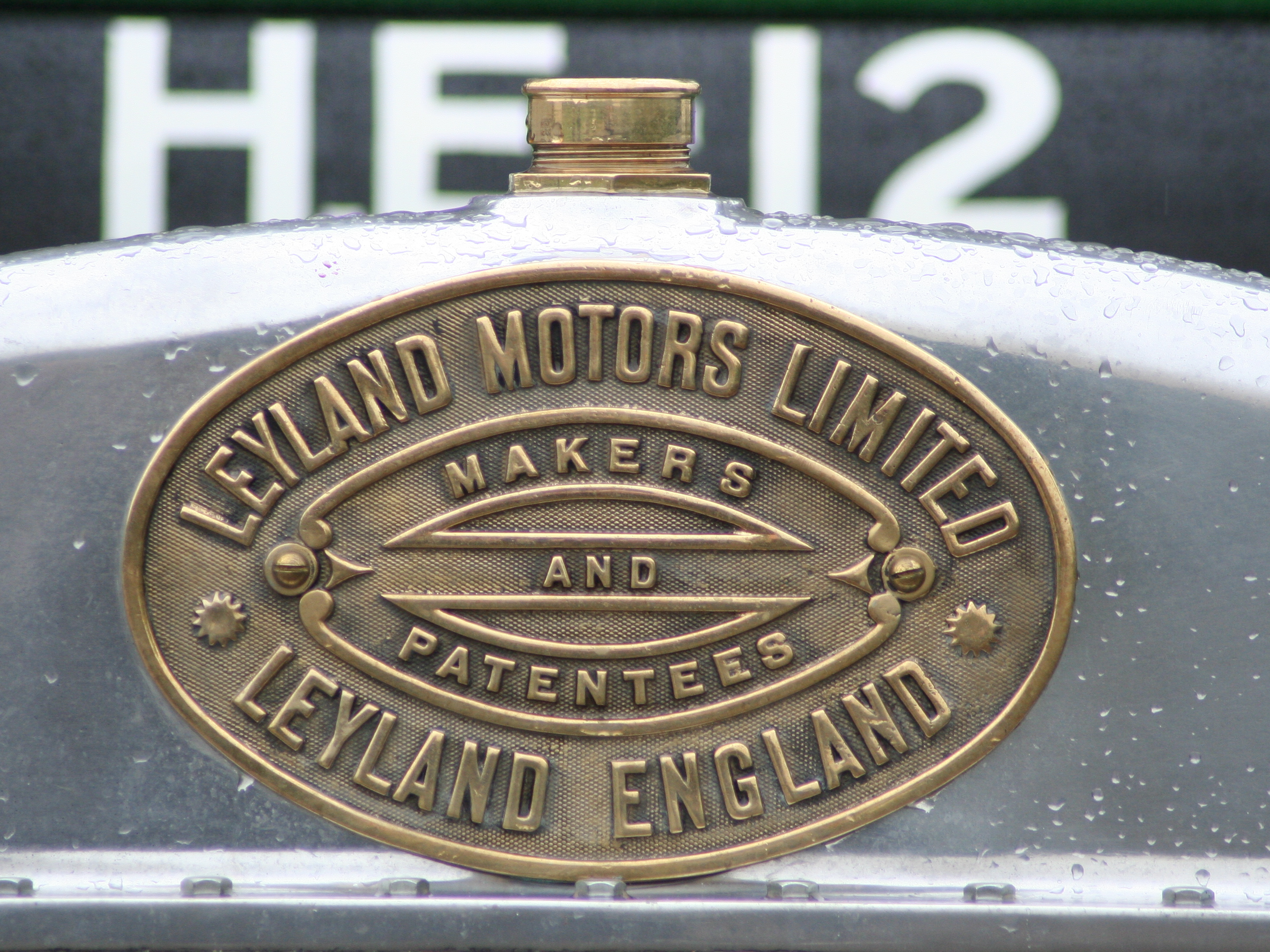 Preserved Barnsley & District Electric Traction Co. bus 5 (reg. HE 12), pictured parked up in Crystal Palace Park, London, in preparation for the 2006 HCVS London to Brighton run the following day.